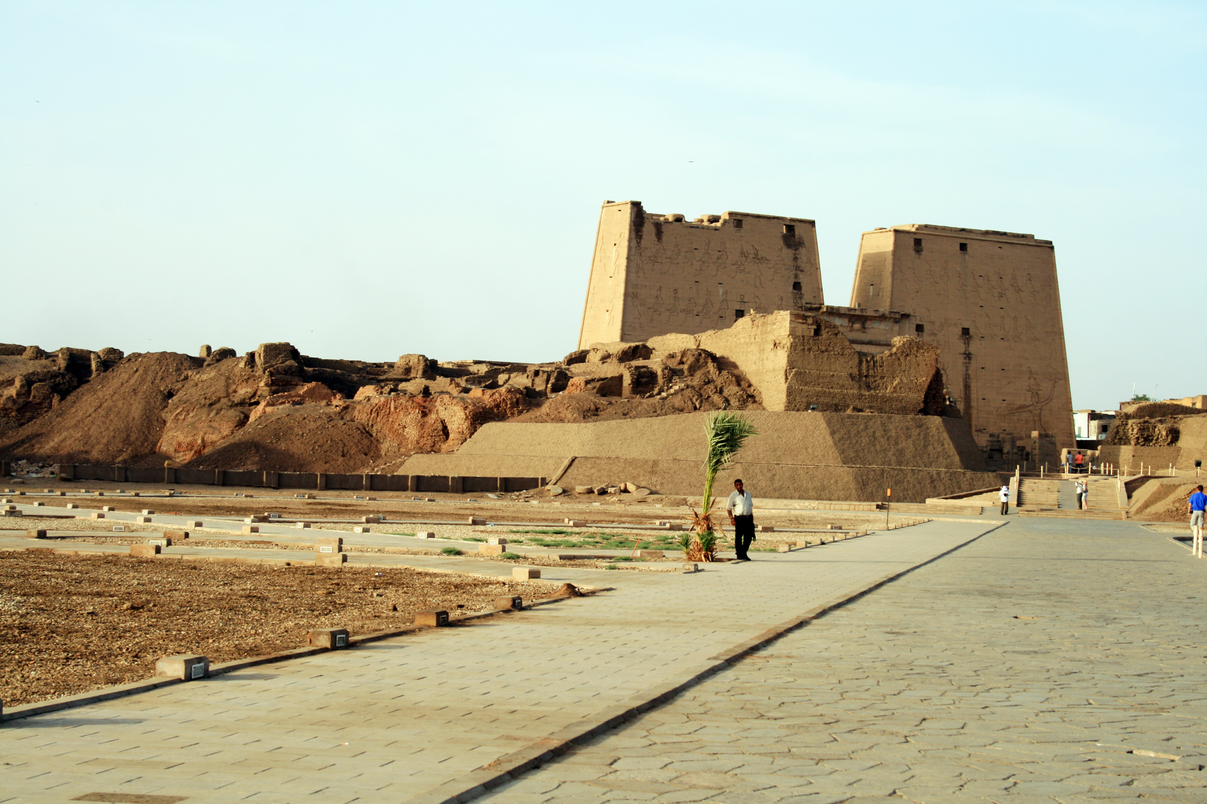 View on pylon of Edfu temple in town Edfu on Nile river, Egypt